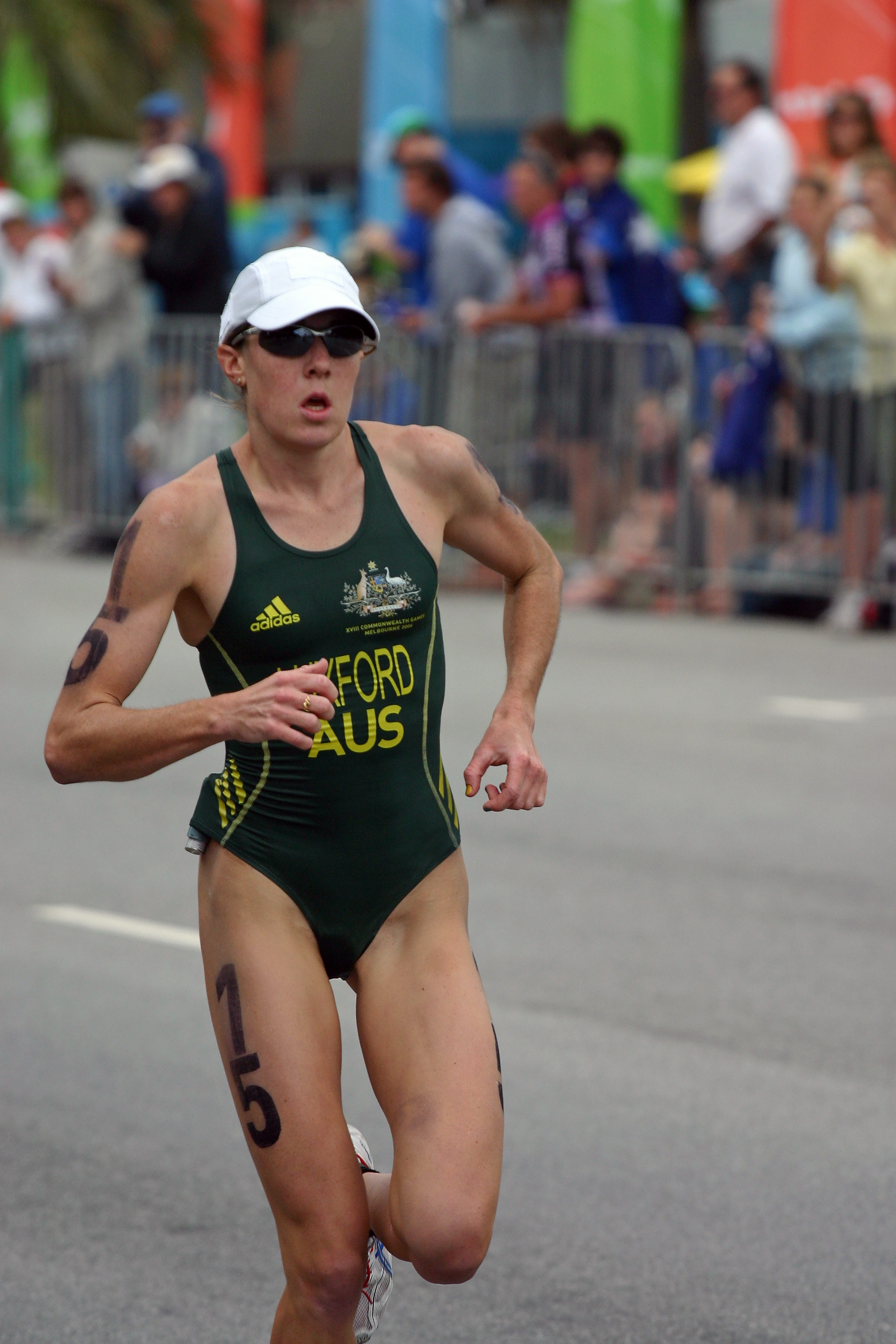 Luxford at the 2006 Commonwealth Games triathlon held on Beach Road, St Kilda.